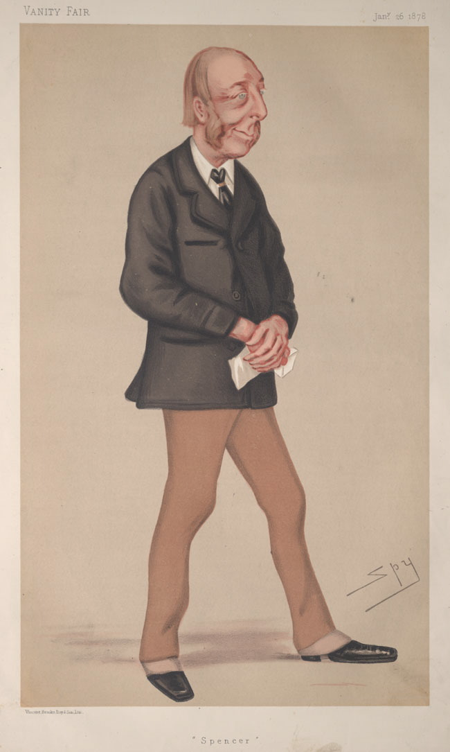 Men of the Day No.172: Caricature of The Hon Spencer Cecil Brabazon Ponsoney-Fane. Caption reads: "Spencer"